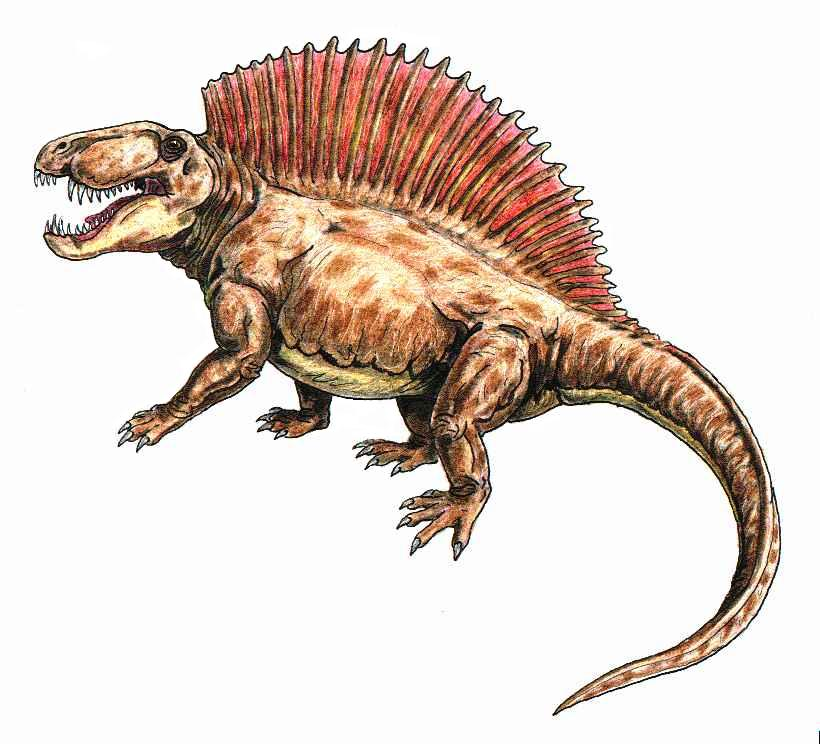 Artist's rendition of Ctenospondylus casei